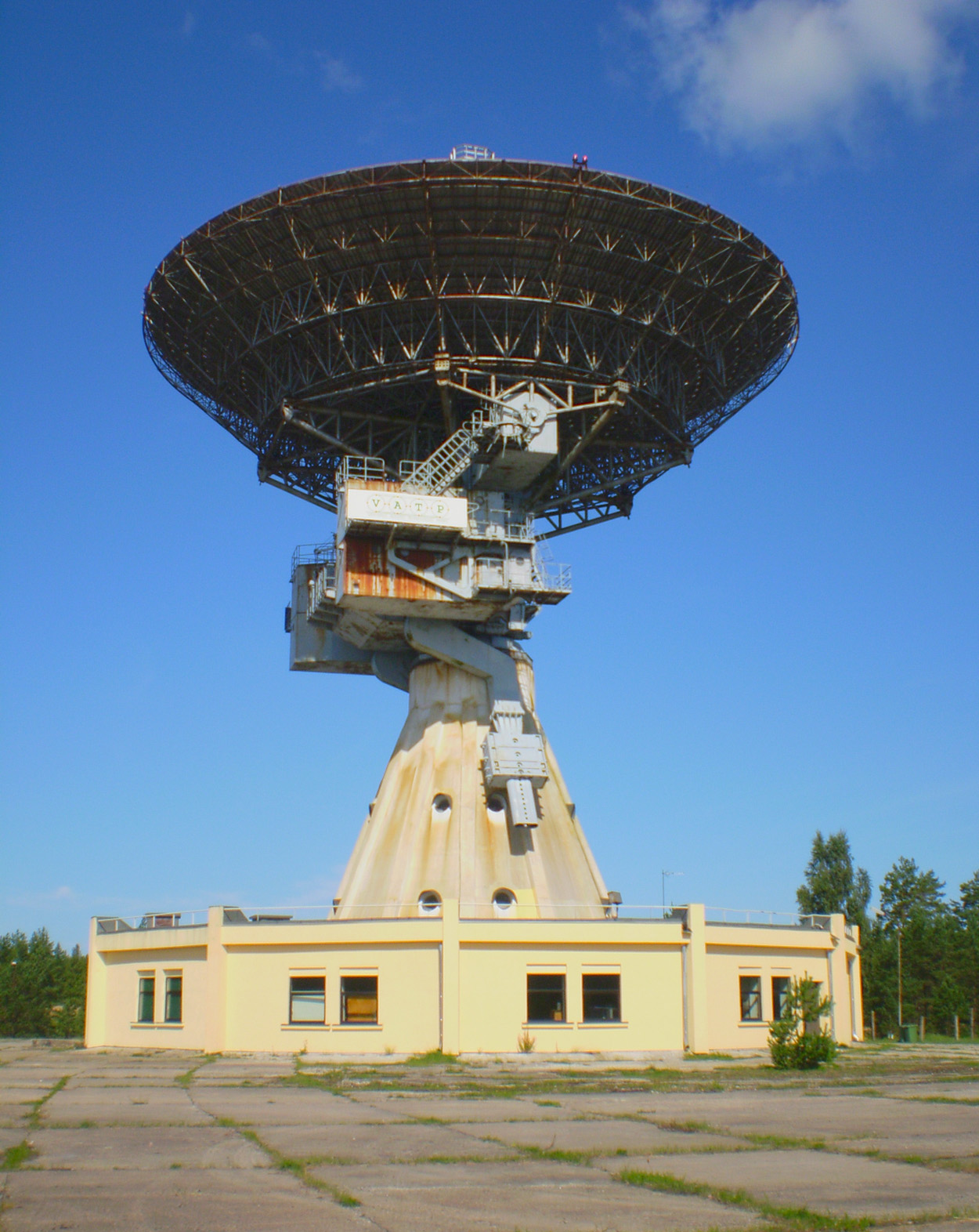 RT-32 telescope in Irbene, Latvia.